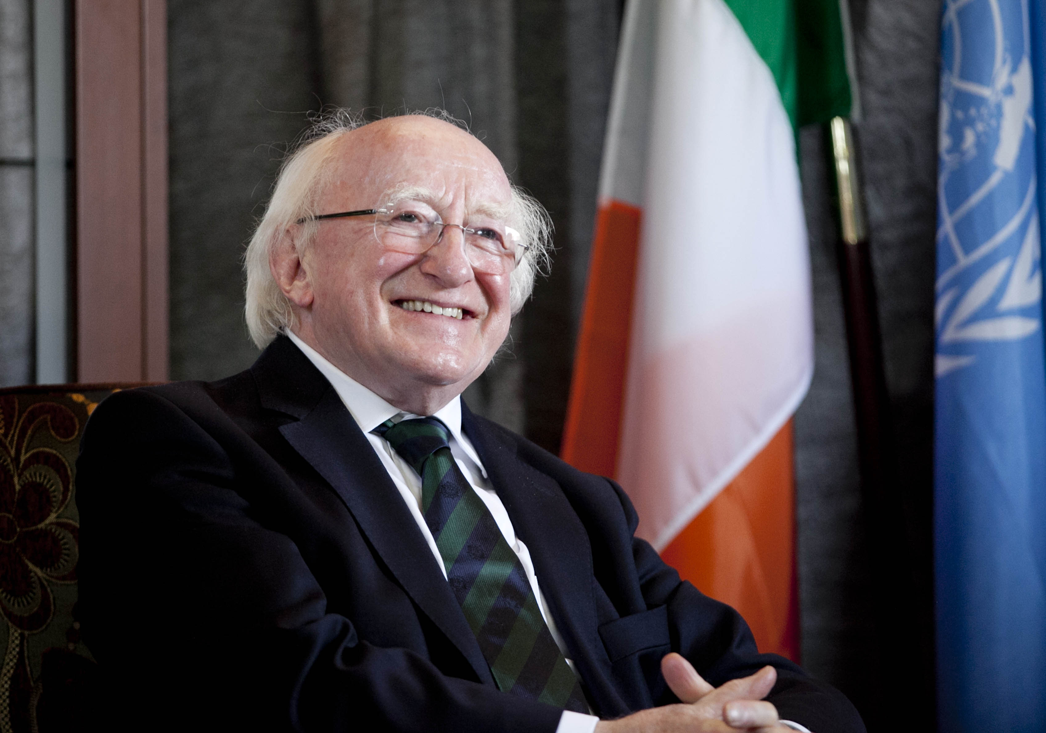 News 28042015. No repro Fee. President Michael D Higgins during a visit to the FINIRISH BATT HQ in South Lebanon .Photo Chris Bellew / Copyright Fennell Photography 2015